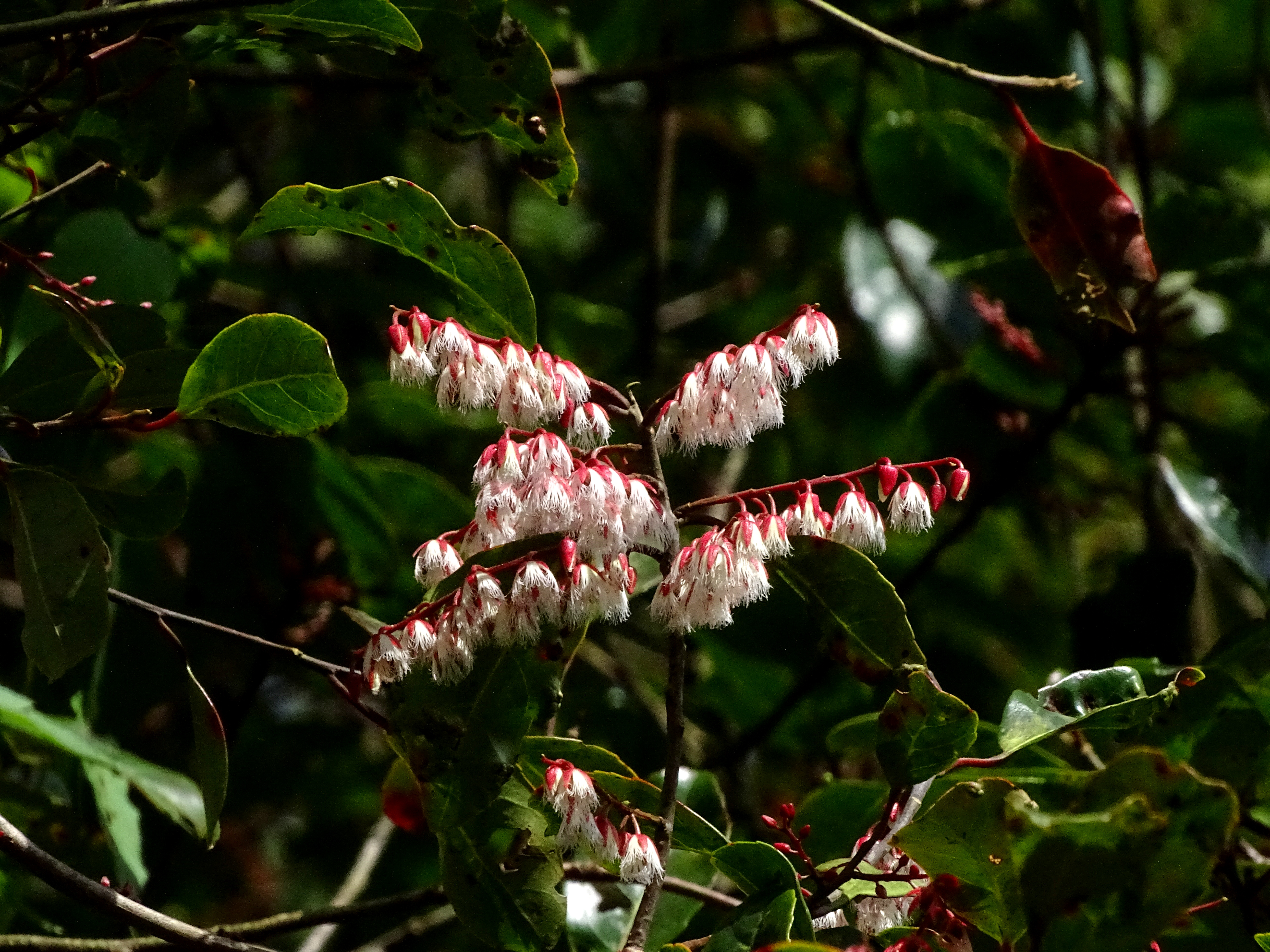 Elaeocarpus variabilis Zmarzty flowers seen in Kudremukh in Bhagawathi Nature camp.